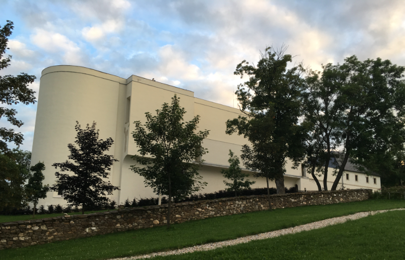 The abbot´s church of Assumption of Mary of the Abbey of Nový Dvůr in the Czech Republic.